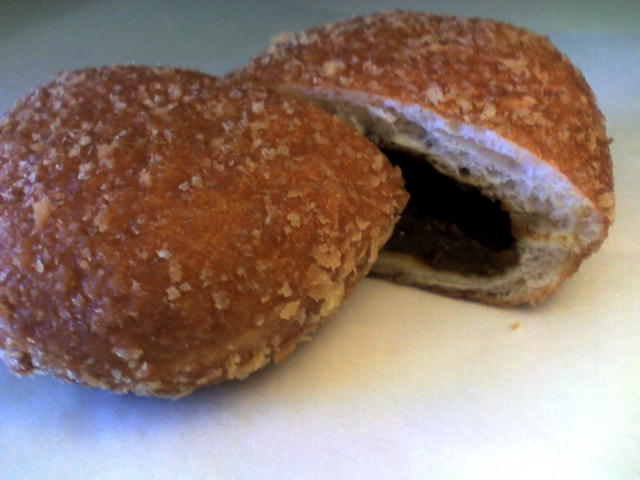 Curry bread